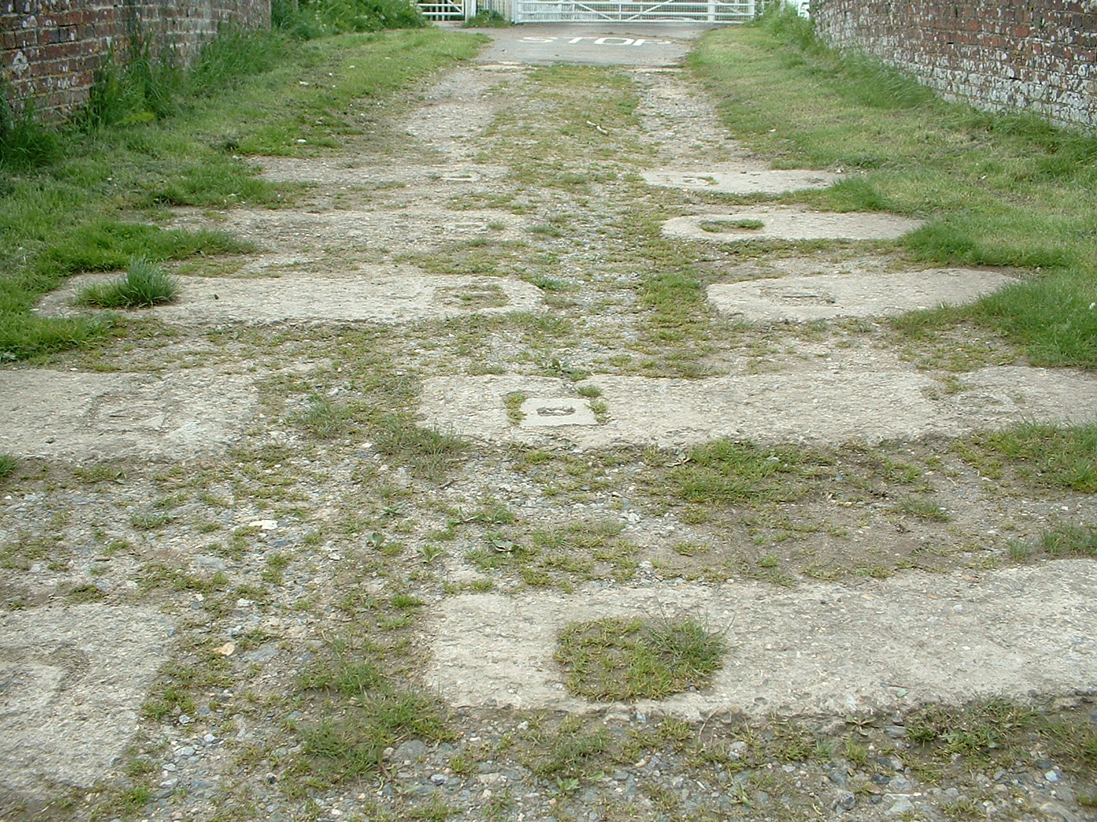 Sockets for Hedgehog removable anti-tank barrier - OS reference SU271632. Between bridge over the Kennet and Avon canal and nearby railway. Near Crofton. Easily accessible. These sockets are a now rare survivor from the defences created in the UK during WWII. There are several examples extant on or near little-used bridges over the Kennet and Avon canal. OS reference SU271632 Photographed by Gaius Cornelius on 24-May-06.